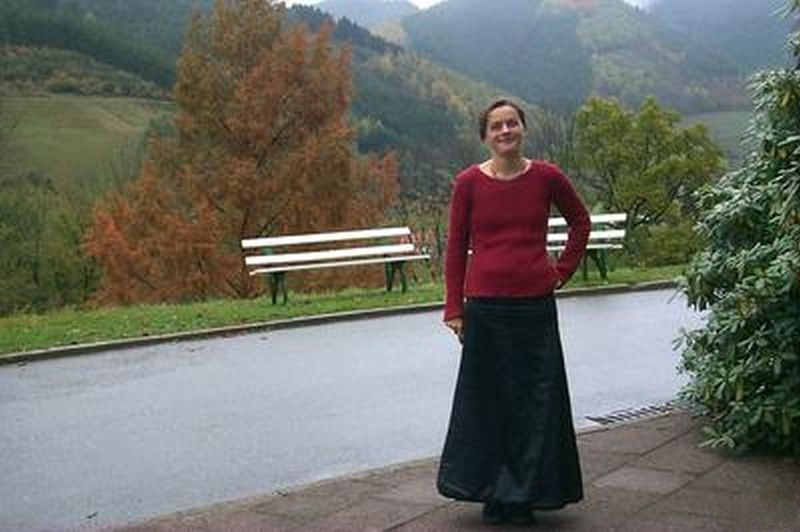 Alice Guionnet, Oberwolfach 2003